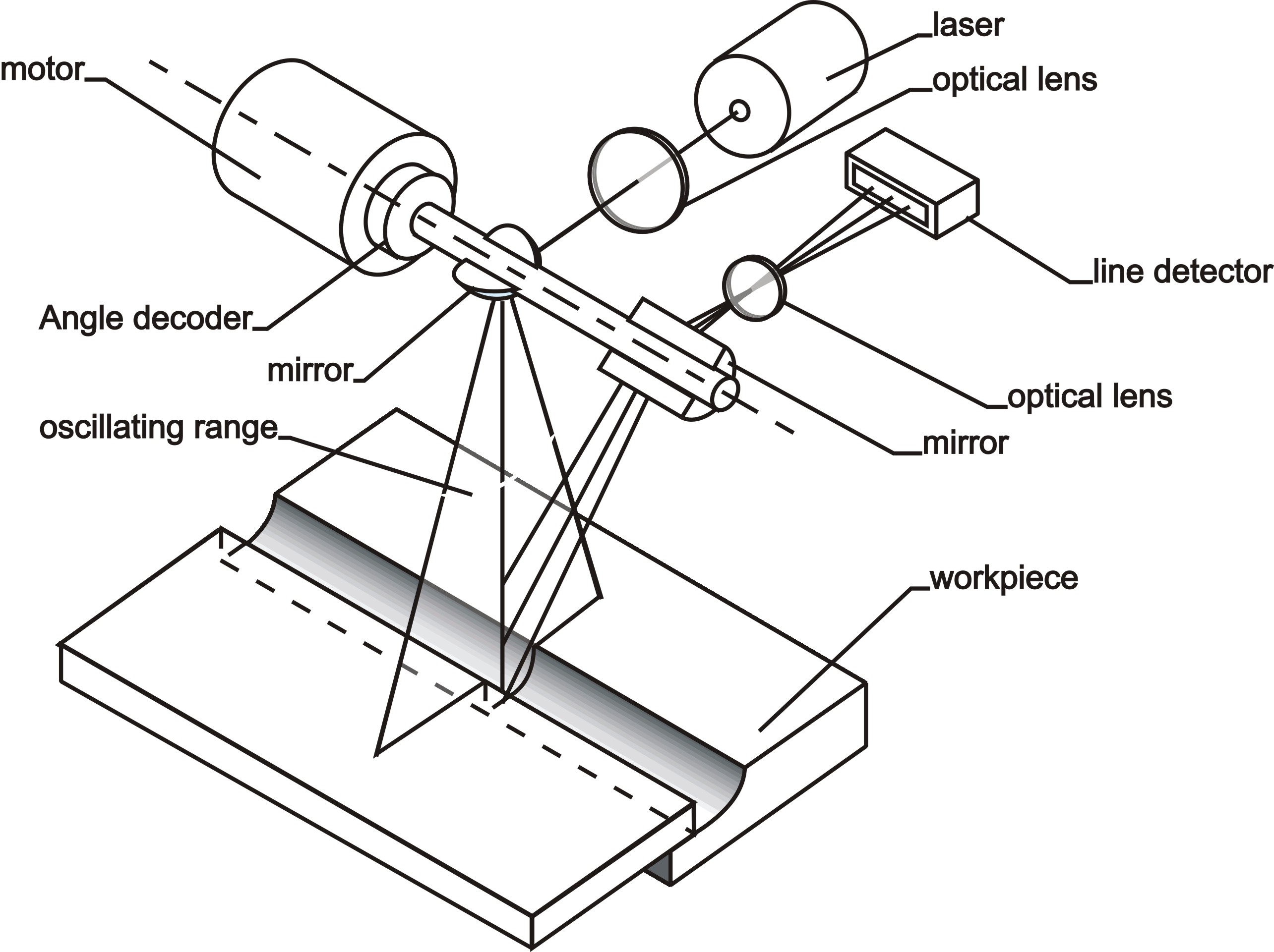 Laserscanner